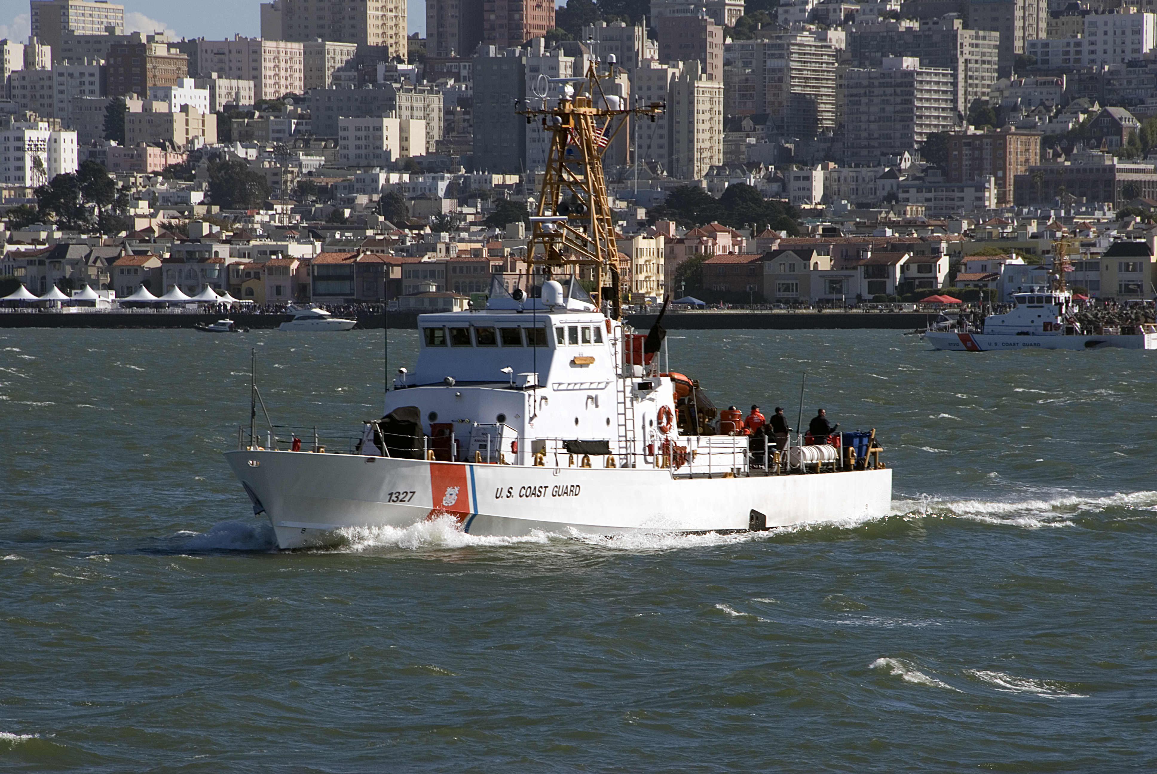 SAN FRANCISCO (Oct. 5, 2007)- The Coast Guard Cutter Orcas, homeported in Coos Bay, Ore., helps enforce the security zone established for the Fleet Week air show over the bay. The annual event has been held in the Bay Area since 1981 to honor the men and women of the armed forces.